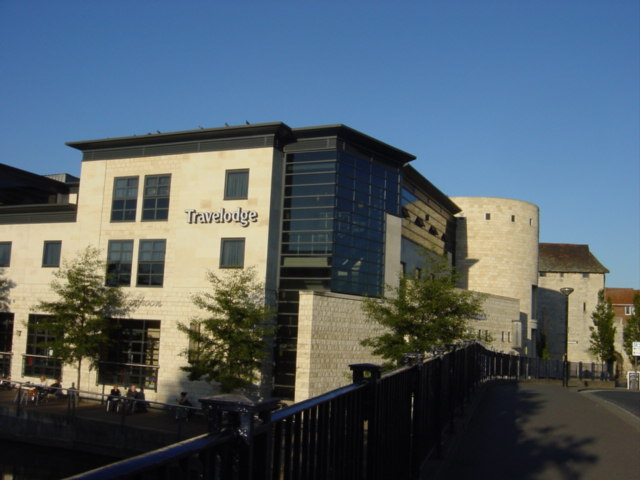 York Central Travelodge. Quite a pleasing building in an ideal position just yards from the Castle Museum, an inexpensive way to stay within the walls and with Wetherspoons part of the same building, cheap enough to eat out too.